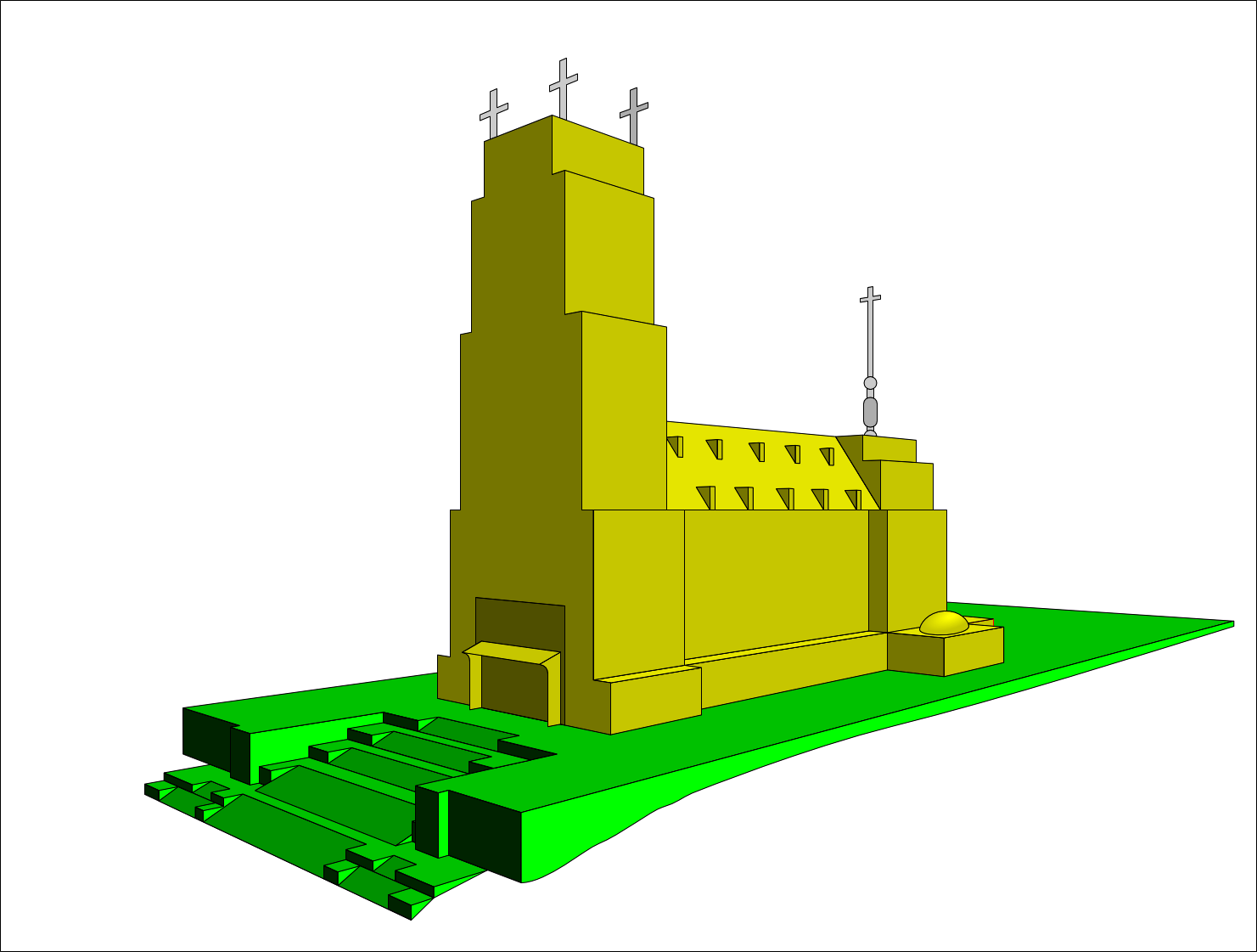 Temppeliaukio Church - Project 1939